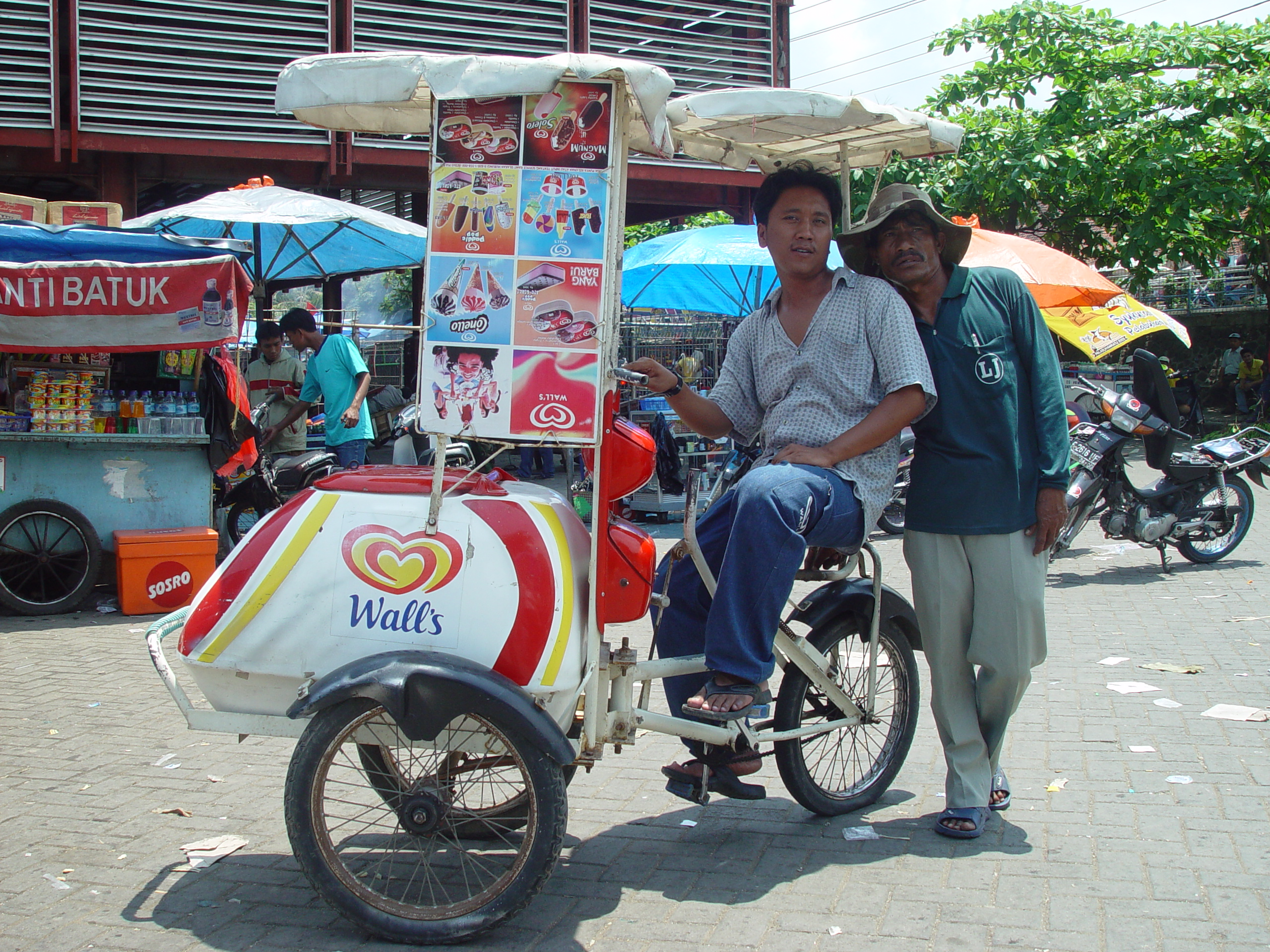 Ice cream seller bike (sepeda es krim), Pelabuhan Ratu Indonesia.